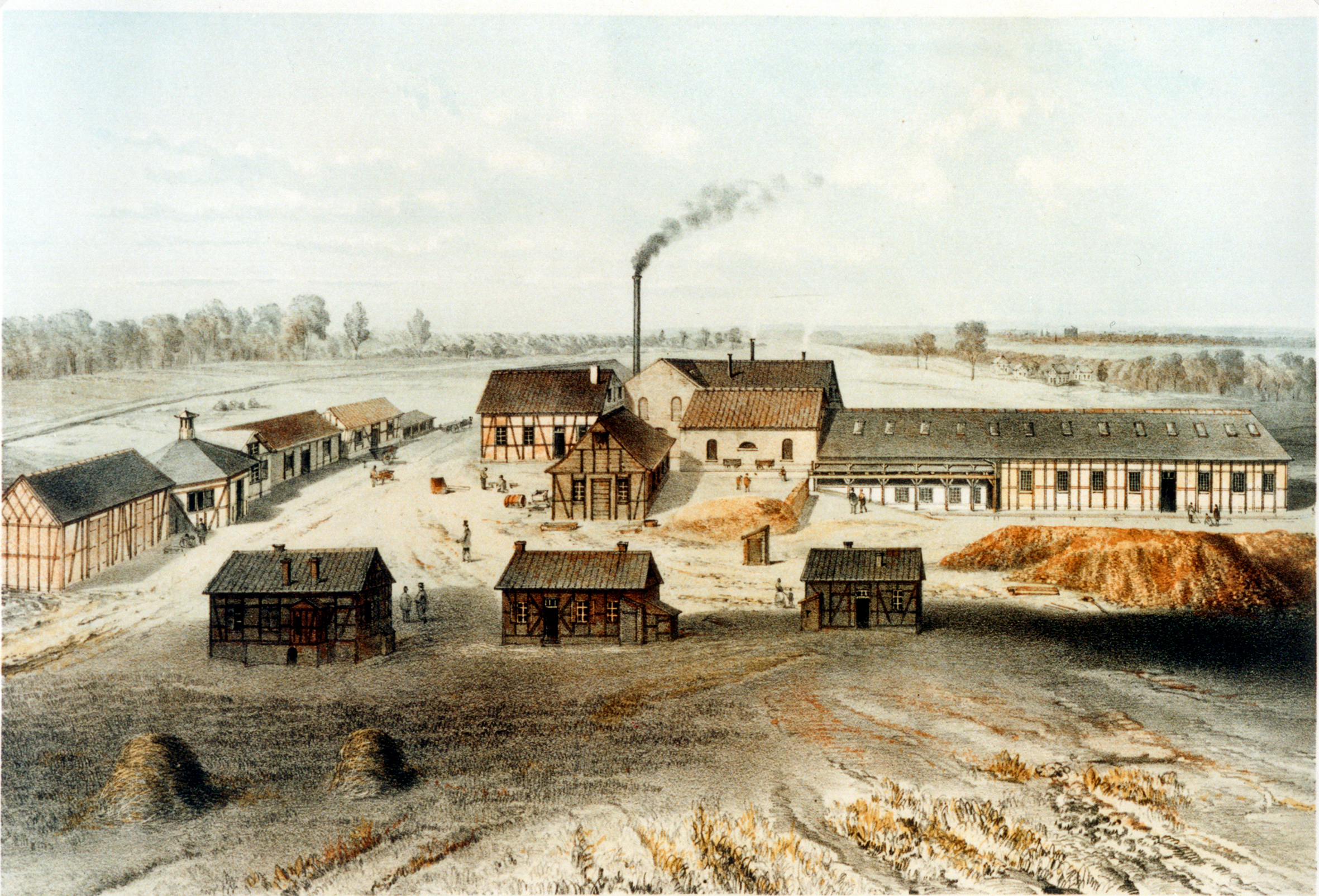 mine Julien 1855